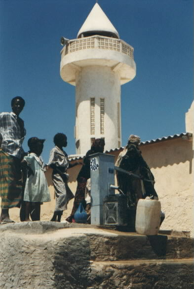 THW-well in Somalia. The Federal Agency for Technical Relief is active in Germany and across the world. Altogether, the voluntary experts commit more than one million hours per year to civil protection.